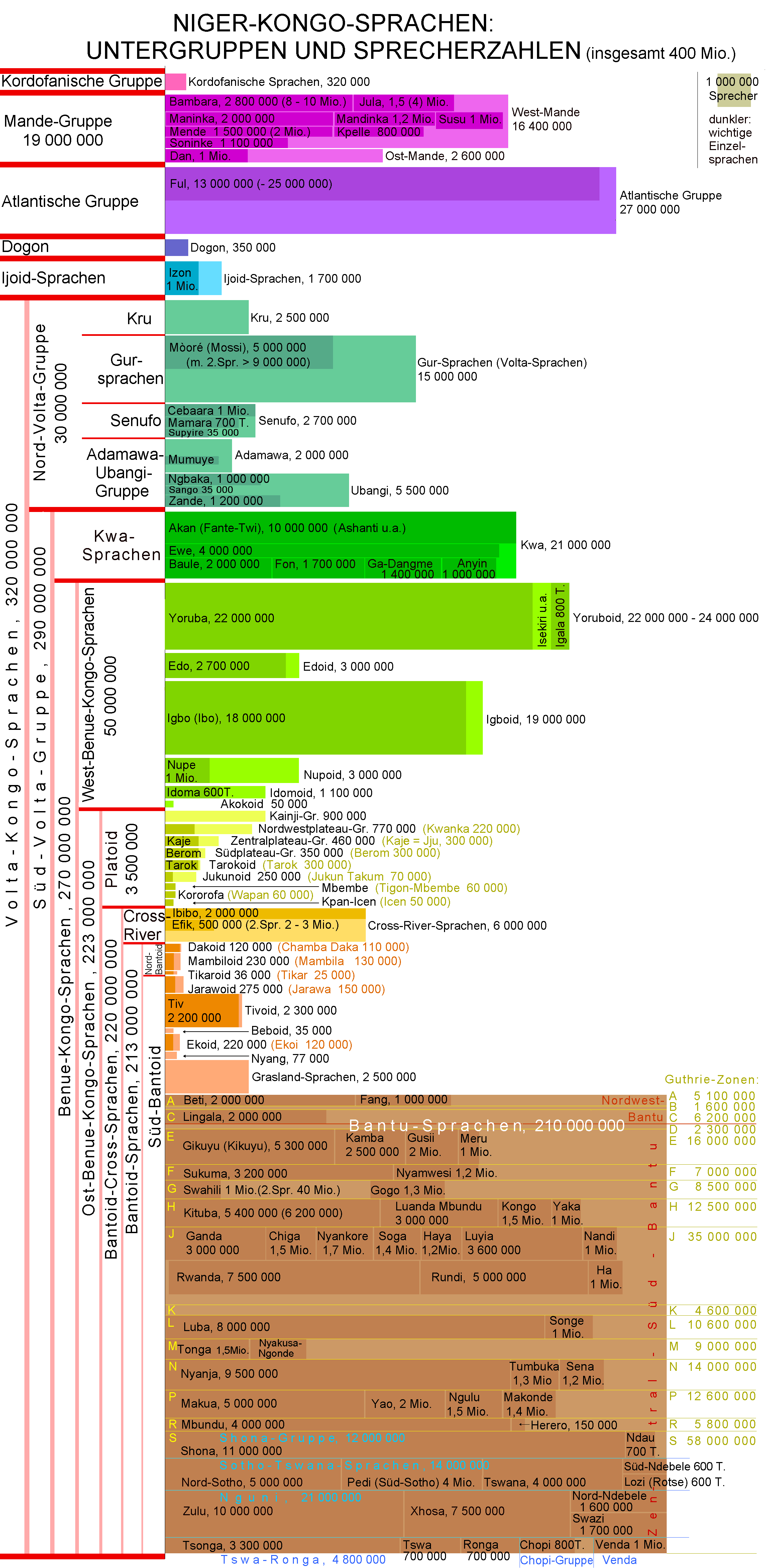 Subgroups and important single languages of the Niger-Congo family of languages.